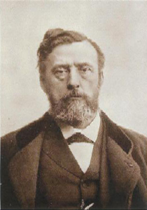 photograph of Paul Dubois (sculptor) (1829–1905)